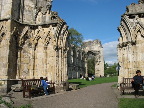 Remnants of St. Mary's Abbey Church in York, England, UK